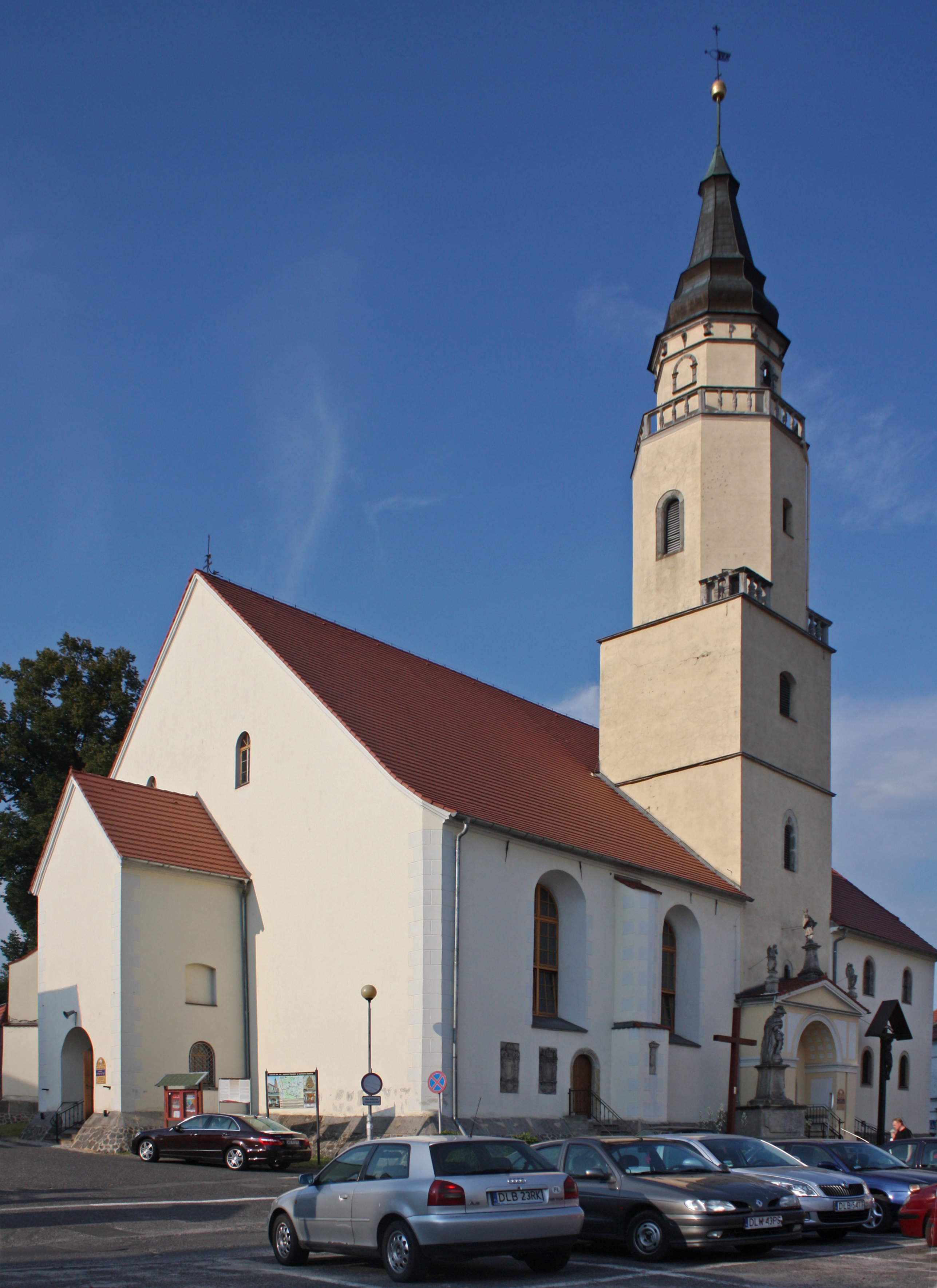 This photo of Lower Silesian Voivodeship was taken during Wikiexpedition 2013 set up by Wikimedia Polska Association. You can see all photographs in category Wikiekspedycja 2013. English | Polski | +/−